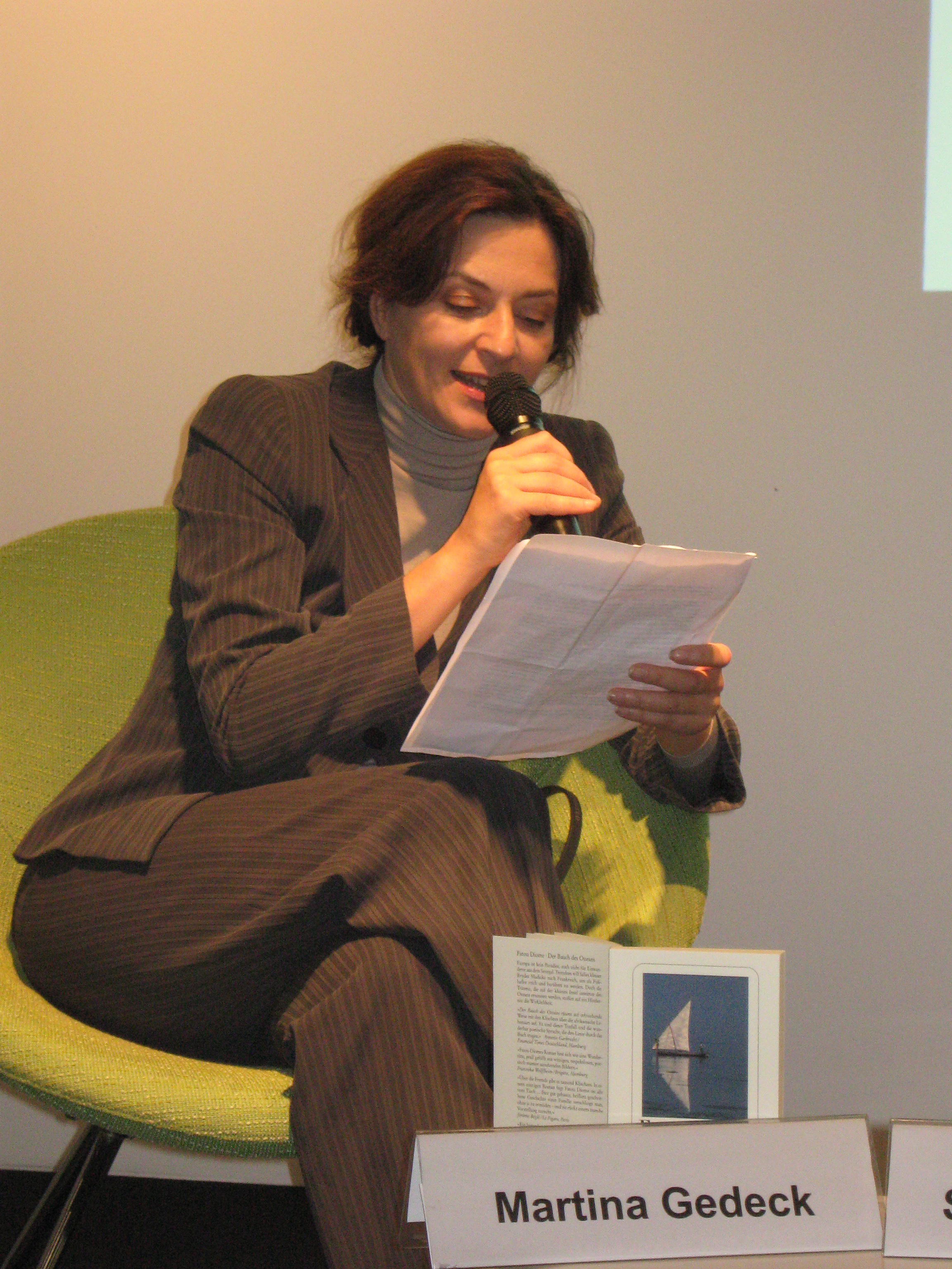 Martina Gedeck during a public reading at the Frankfurt Book Fair on 10/17/2008.